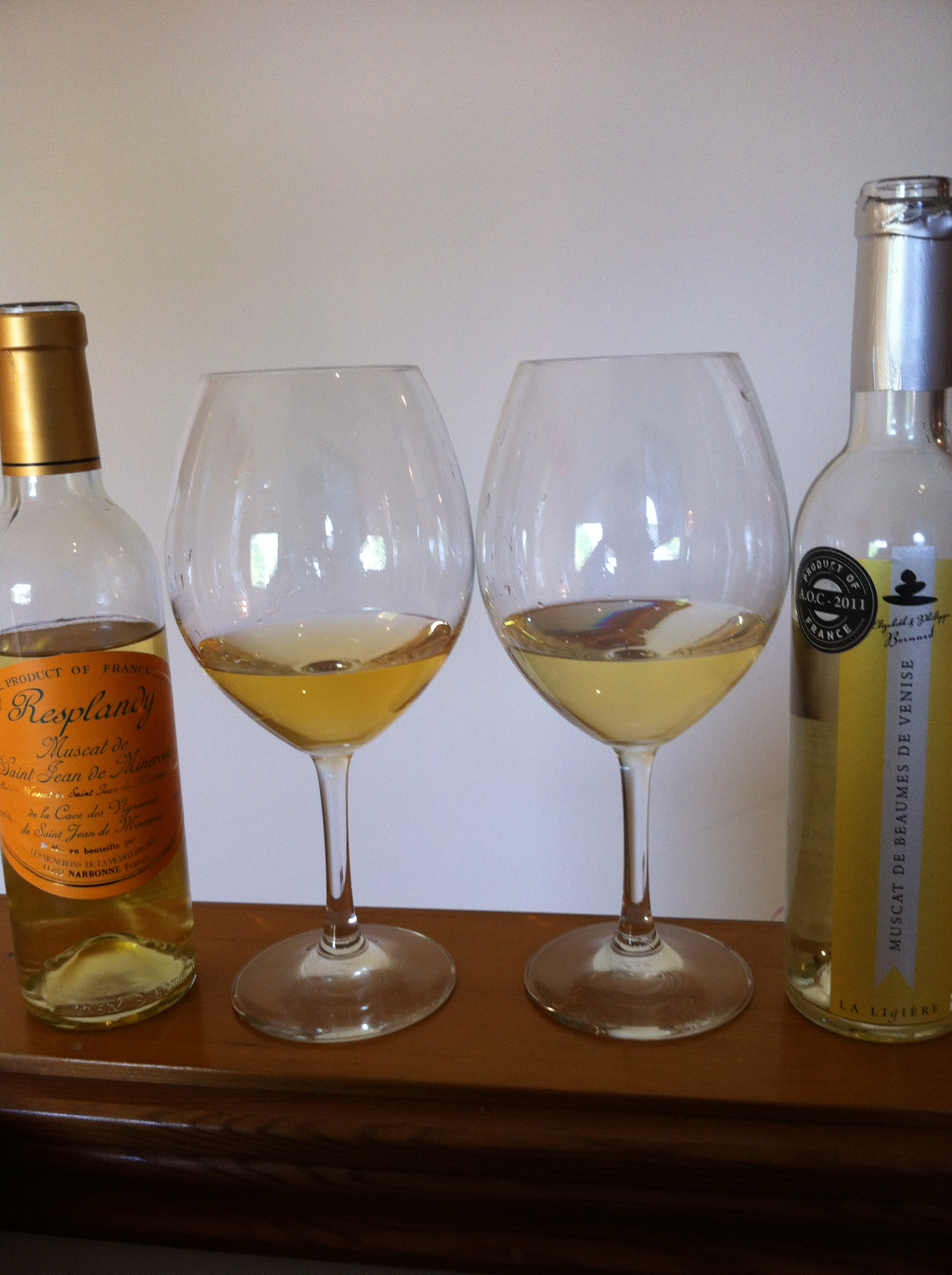 A muscat de saint jean de Minervois and muscat de Beaume de Venise from France made as Vin Doux Naturels. Both wines are made from the Muscat blanc a Petits Grain grape.